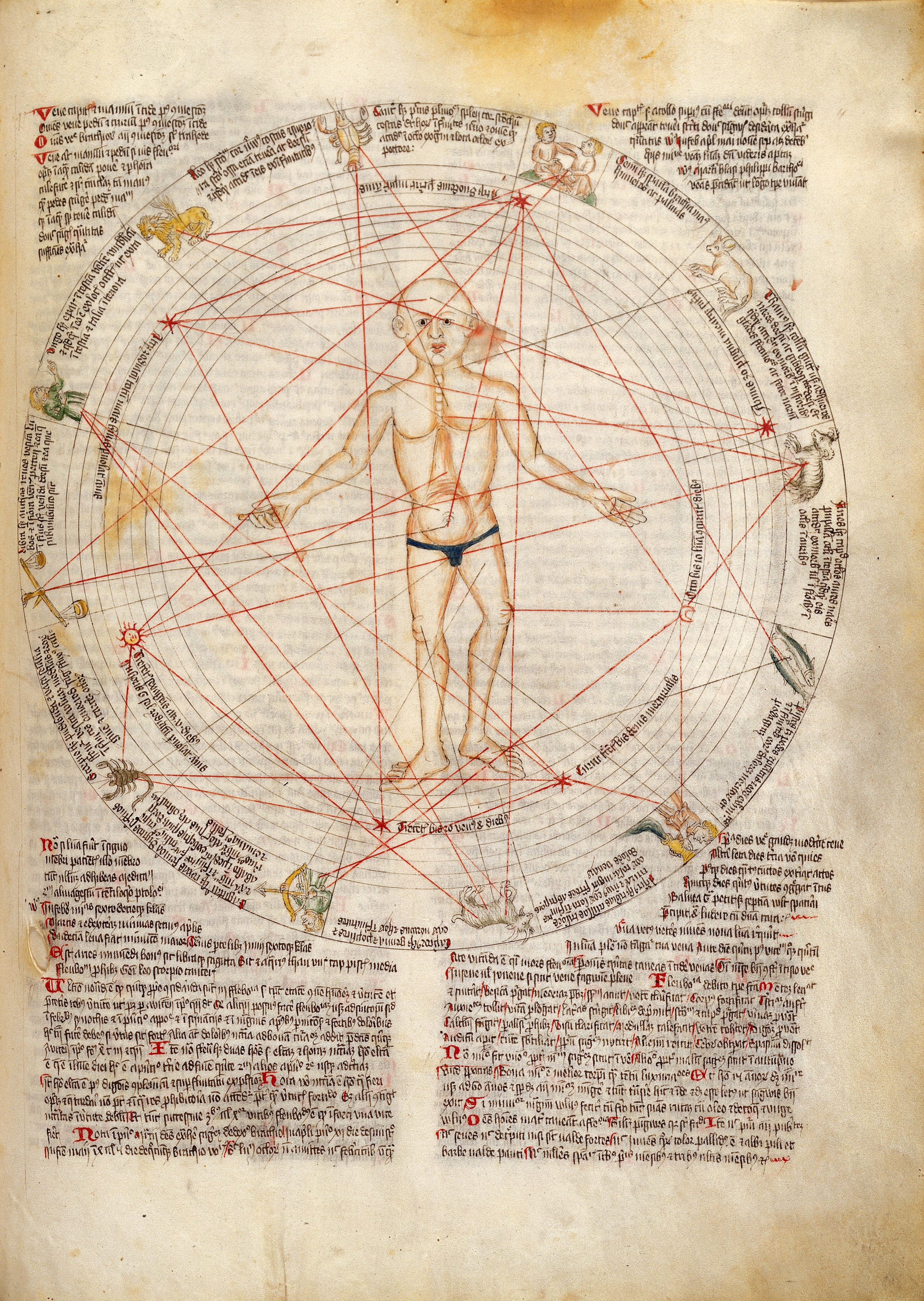 Bloodletting man in centre of circle of the zodiac, showing the influence of zodiac and planets - Zodiac man Archives & Manuscripts Keywords: apocalypsis; Medieval; Middle Ages